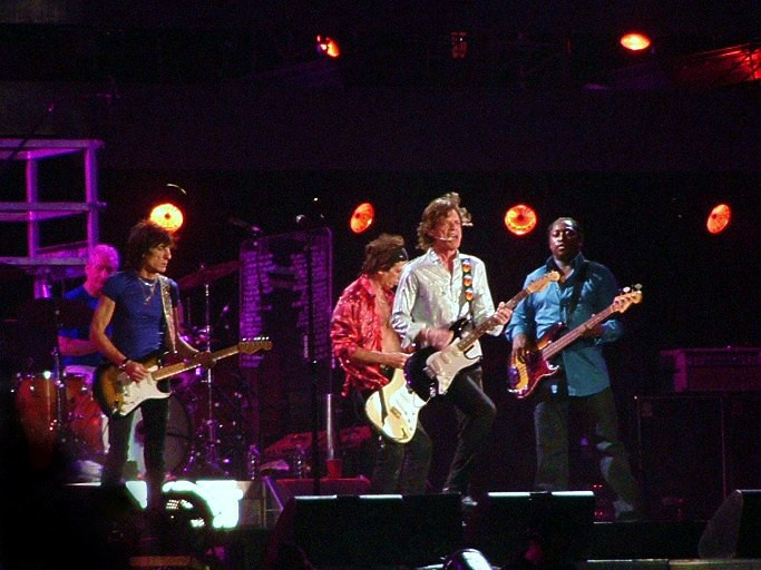 Rolling Stones concert in the Giuseppe-Meazza-Stadion in Milan on 11th July 2006